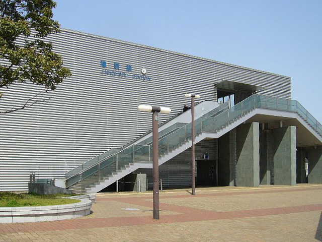 Jinnoharu Station in Yahatanishi-ku, Kitakyushu, Fukuoka Prefecture, Japan